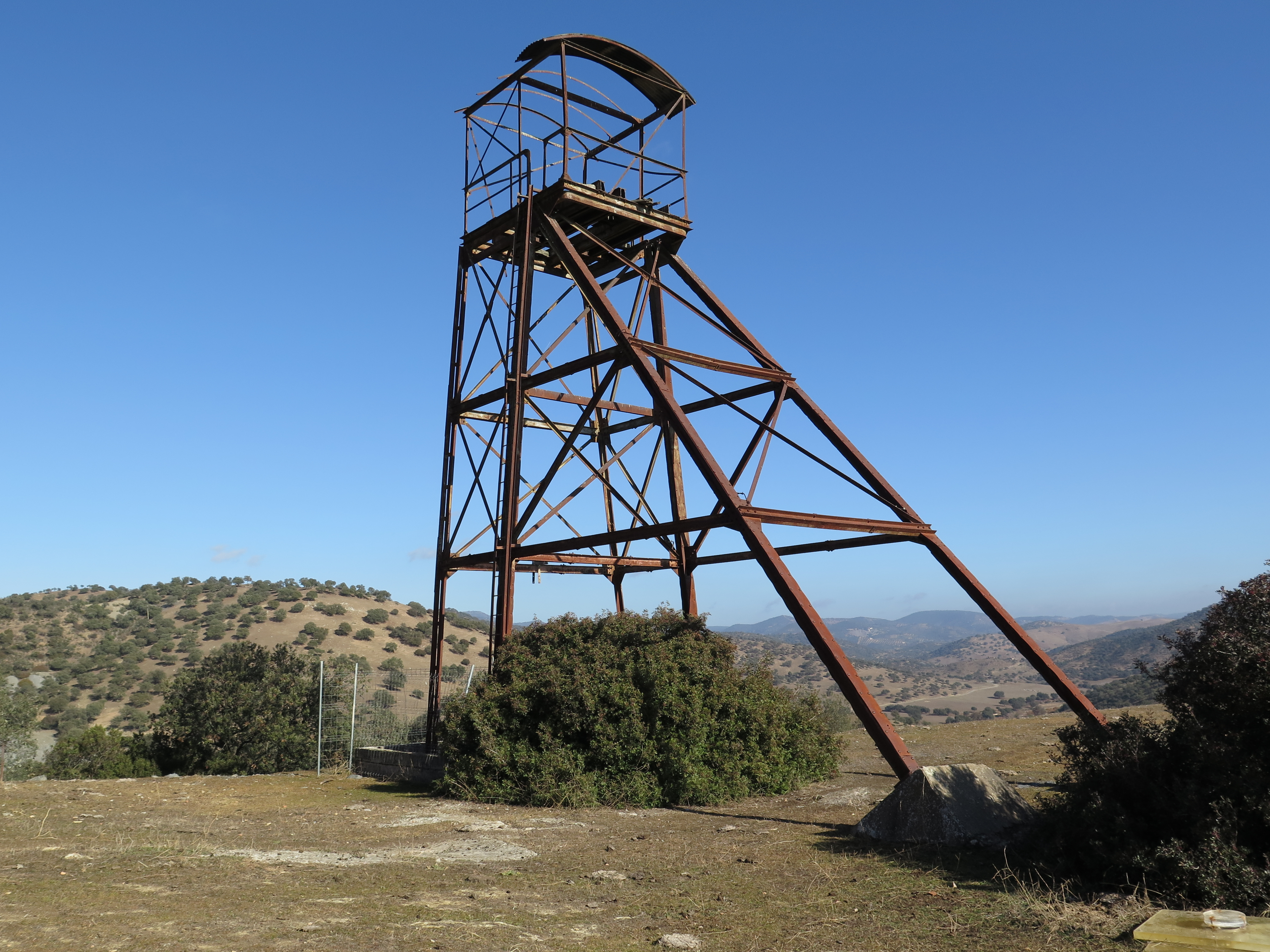 Old derrick at El Centenillo, Jaén, Spain.